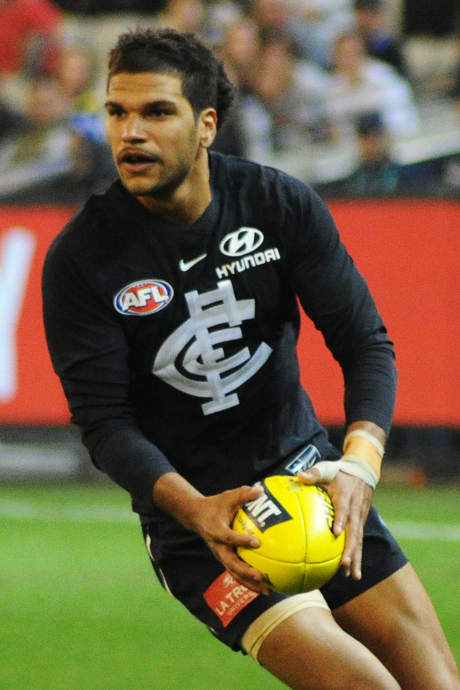 Sam Petrevski-Seton during the AFL round five match between Carlton and West Coast on 21 April 2018 at the Melbourne Cricket Ground in Melbourne, Victoria.